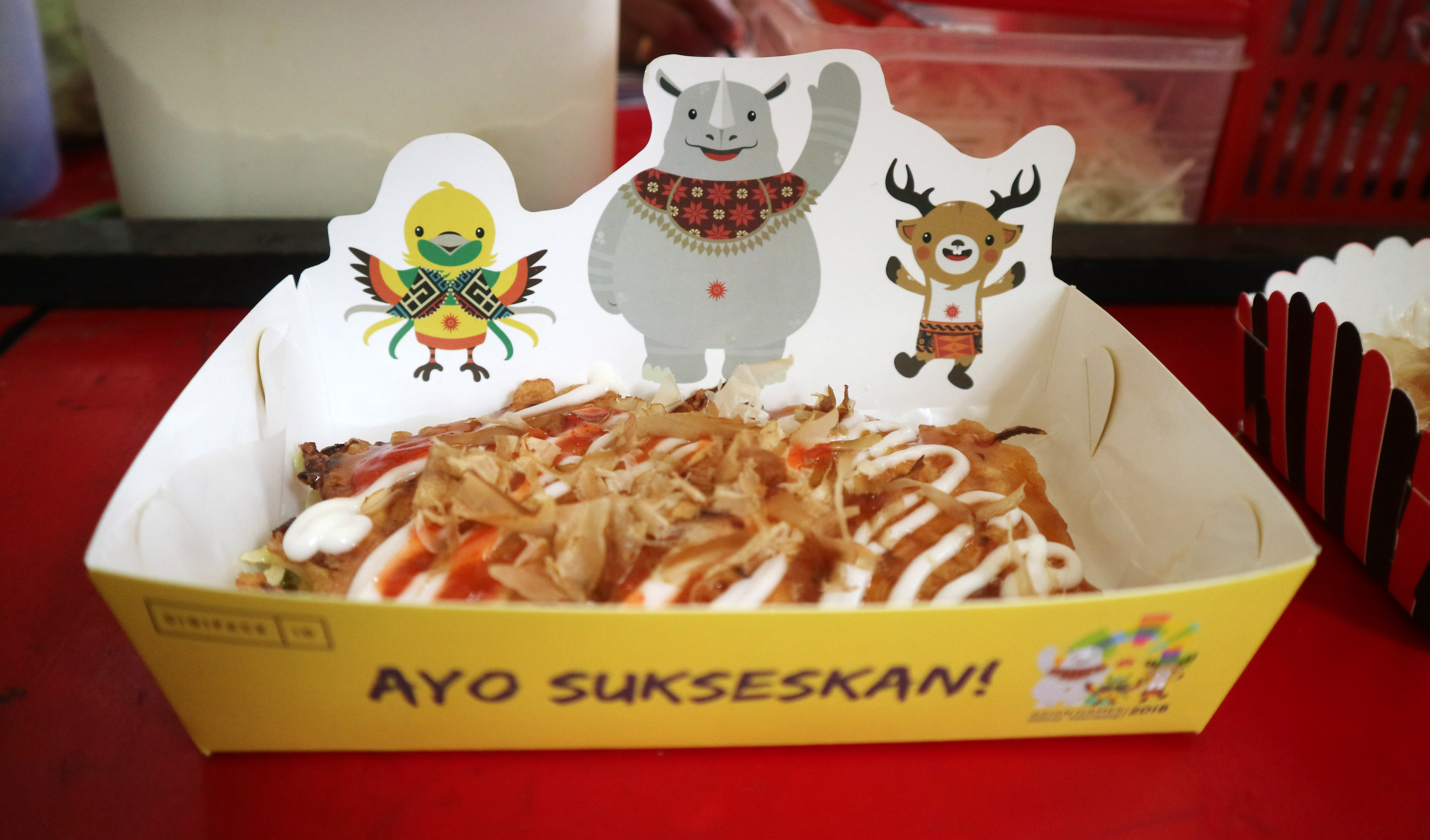 Okonomiyaki sold in a foodcourt of Asian Games 2018 venue, Gelora Bung Karno Stadium, Senayan, Central Jakarta, Indonesia.